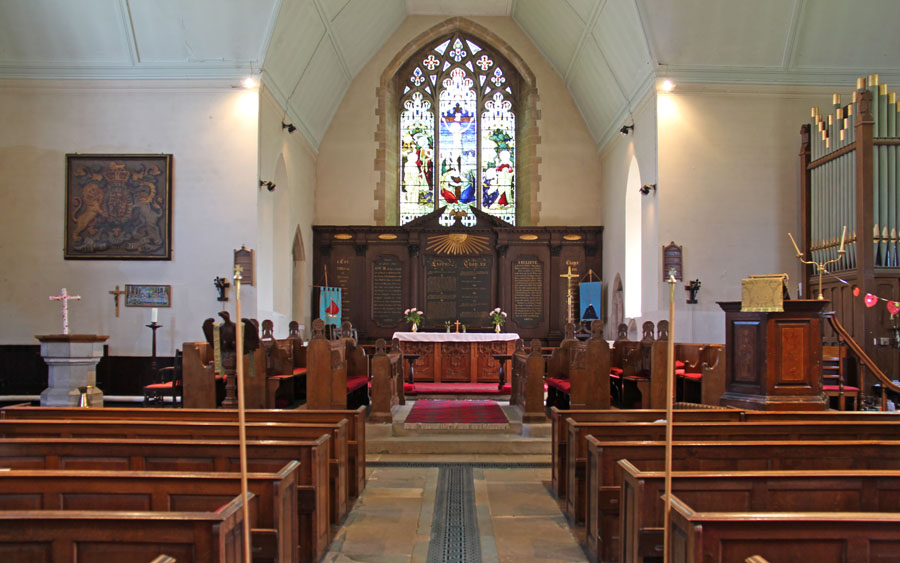 St Peter & St Paul, Teston - East end